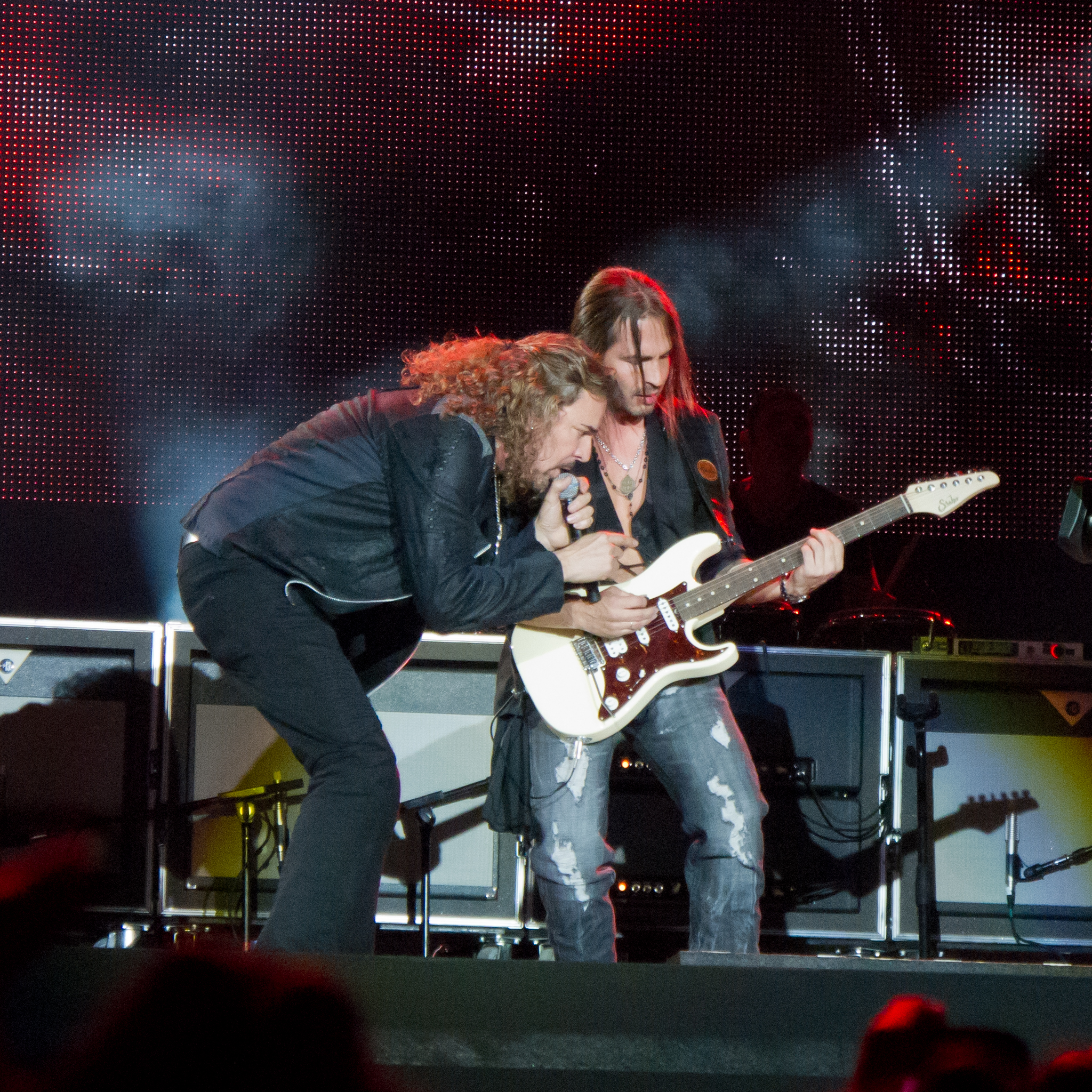 Maná in concert in Rock in Rio in Madrid in 2012.